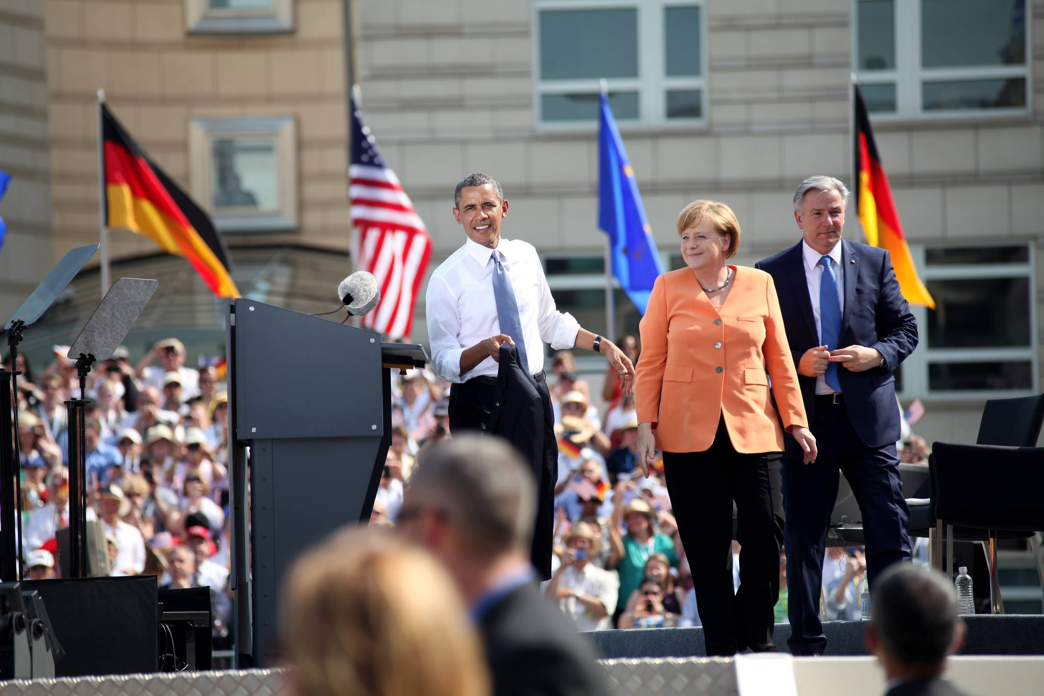 from left to right: President of the United States Barack Obama, Germany's Chancellor Angela Merkel and Berlin's Governing Mayor Klaus Wowereit at Obama's Germany visit in June 2013.